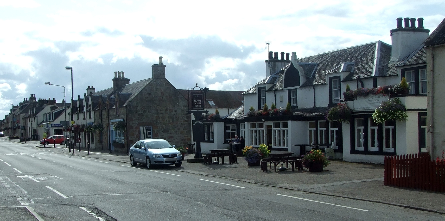 Main Street in Evanton from opposite the Novar Aarms